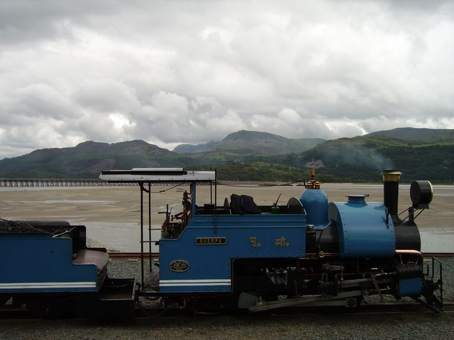 'Sherpa' steam locomotive